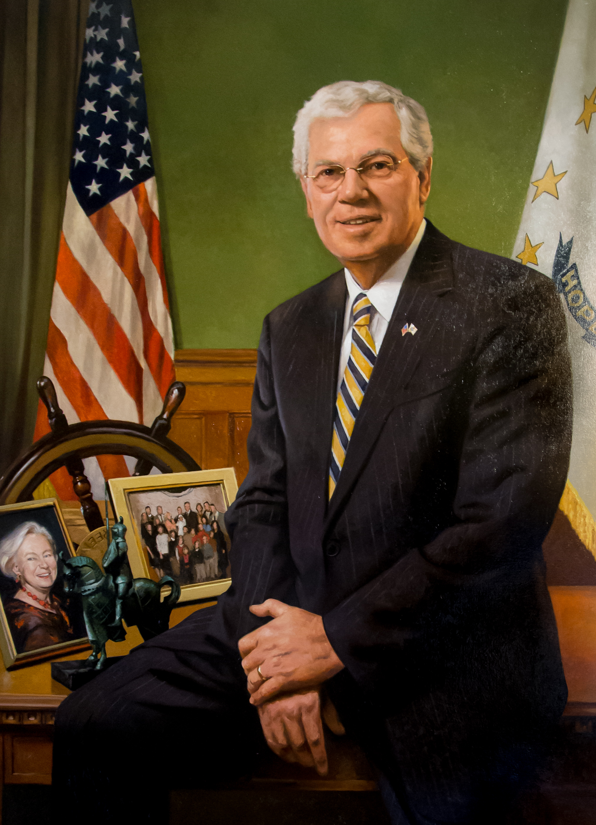 Official portrait in the Rhode Island State House.